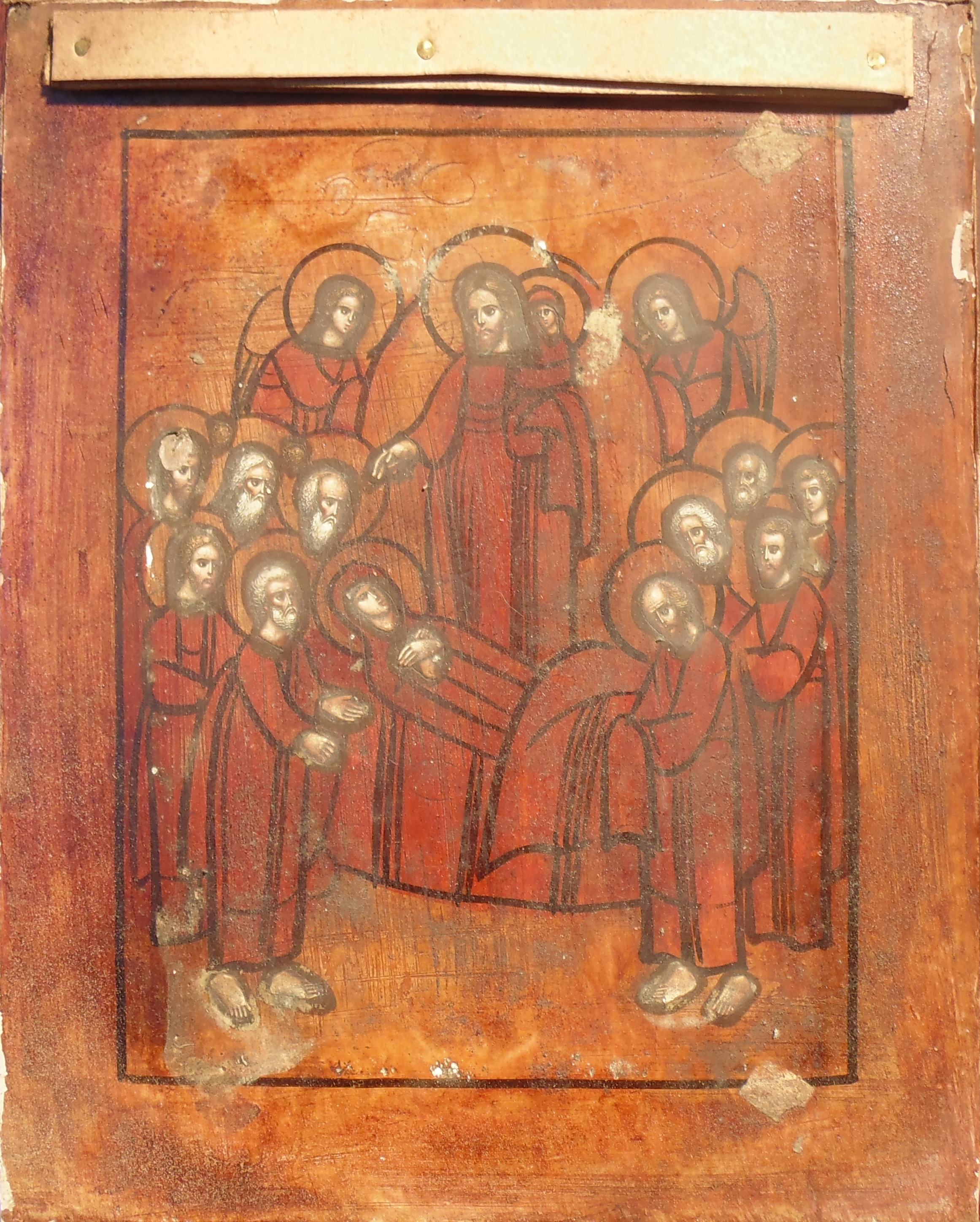 Icon of virgin Chuguevskaya.